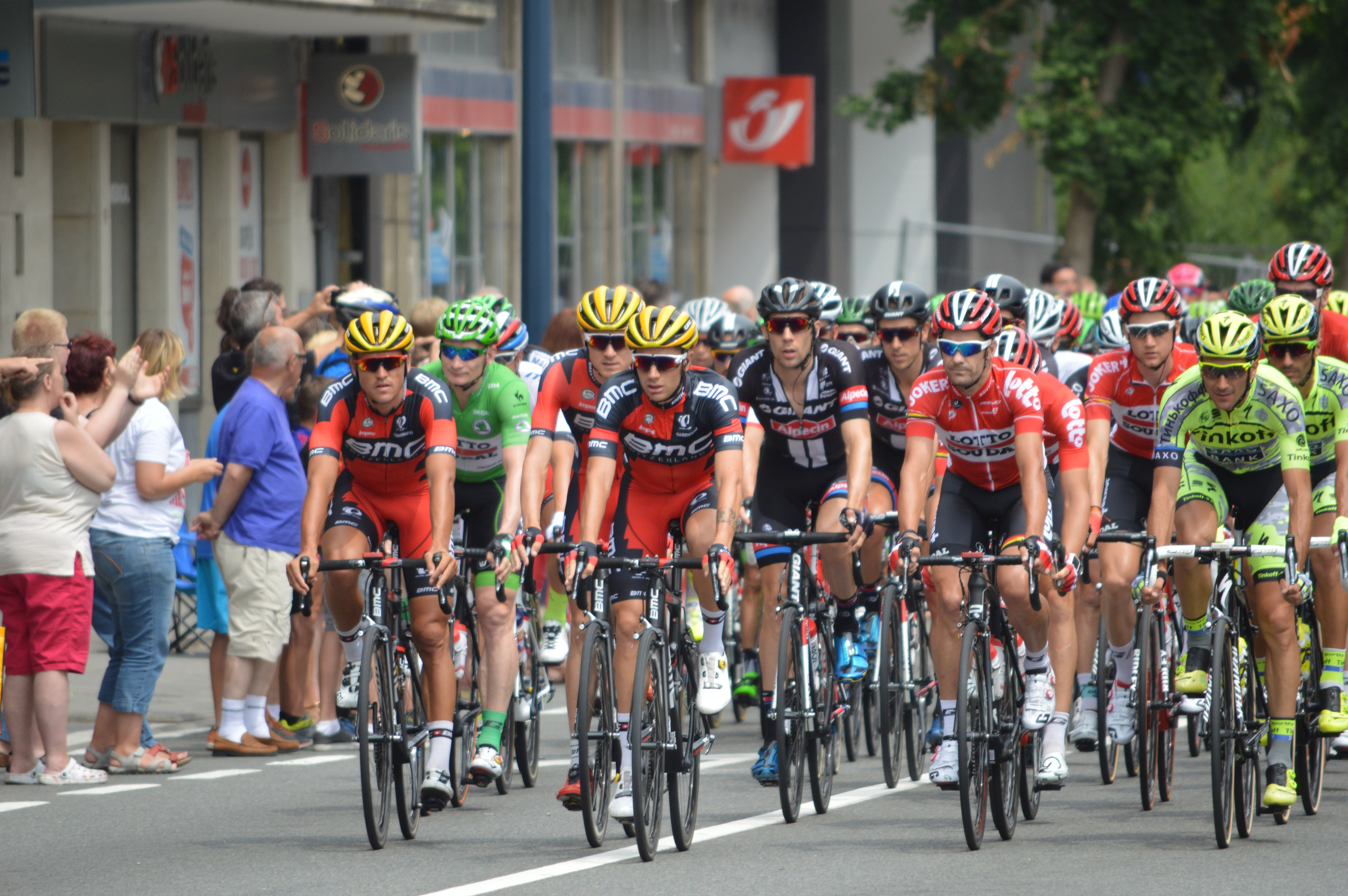 Tour de France 2015 in Jambes, Belgium.